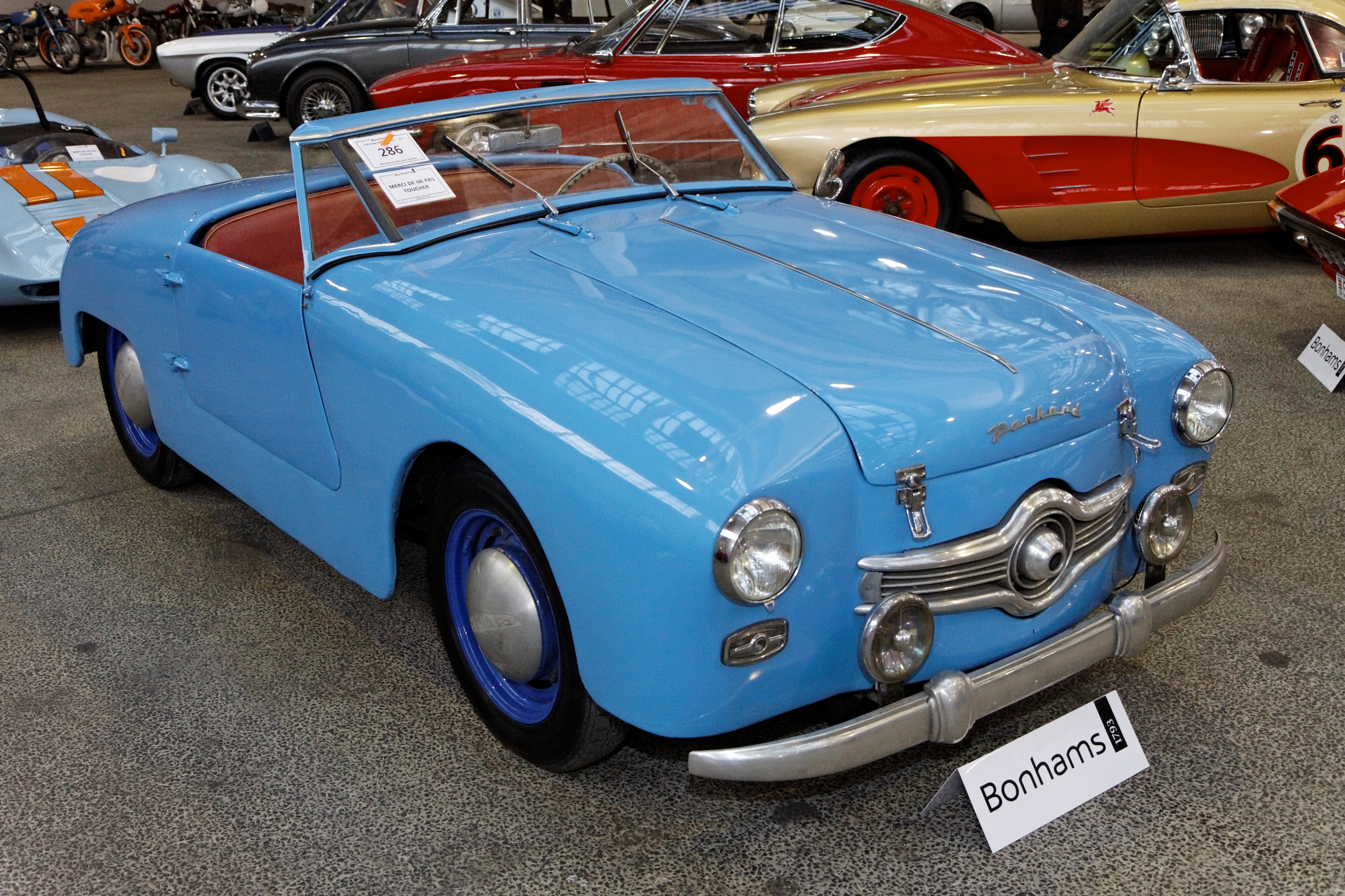 Panhard Dyna Junior Roadster